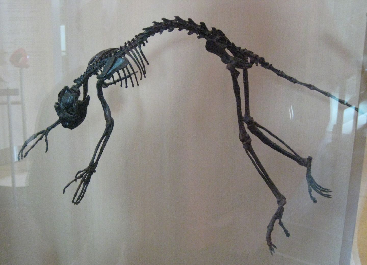 Notharctus tenebrosus, American Museum of Natural History. 49 million years ago.